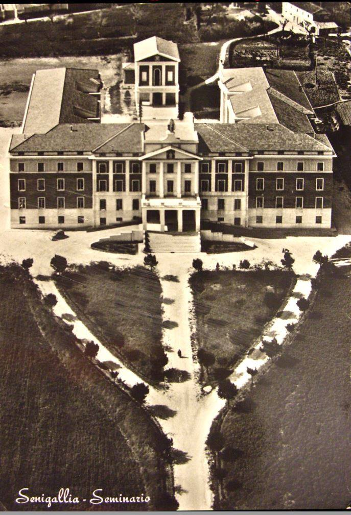 This is a photo of the new Seminary taken from above.